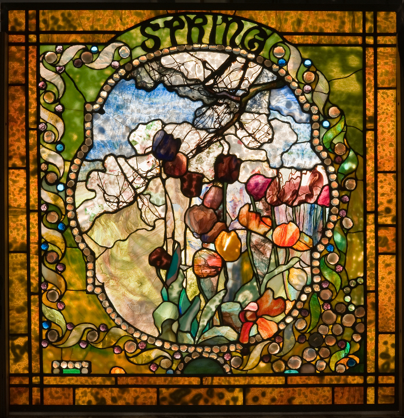 One of four leaded-glass panels featuring a seasonal theme designed by Louis Comfort Tiffany. This panel was on display at Tiffany's Long Island estate Laurelton Hall, and is now in the permanent collection of the Charles Hosmer Morse Museum of American Art.